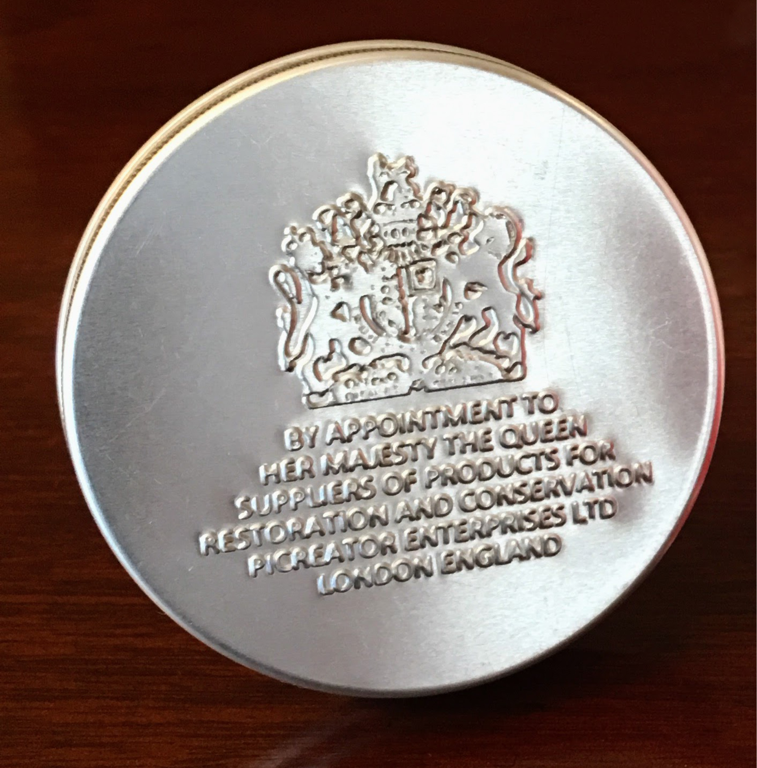 Renaissance Wax lid with Royal Warrant from Her Majesty The Queen